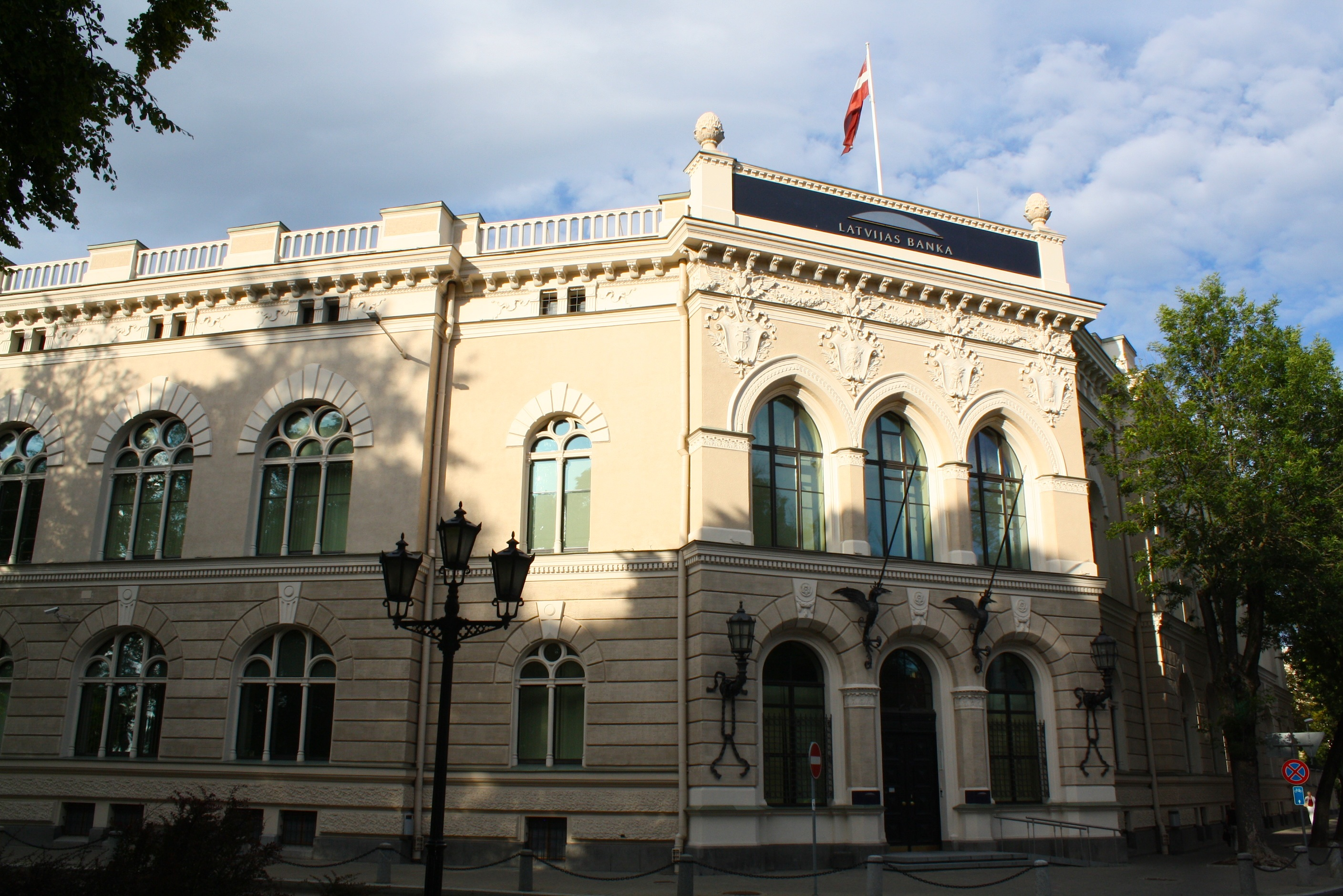 Riga, HQ of Bank of Latvia